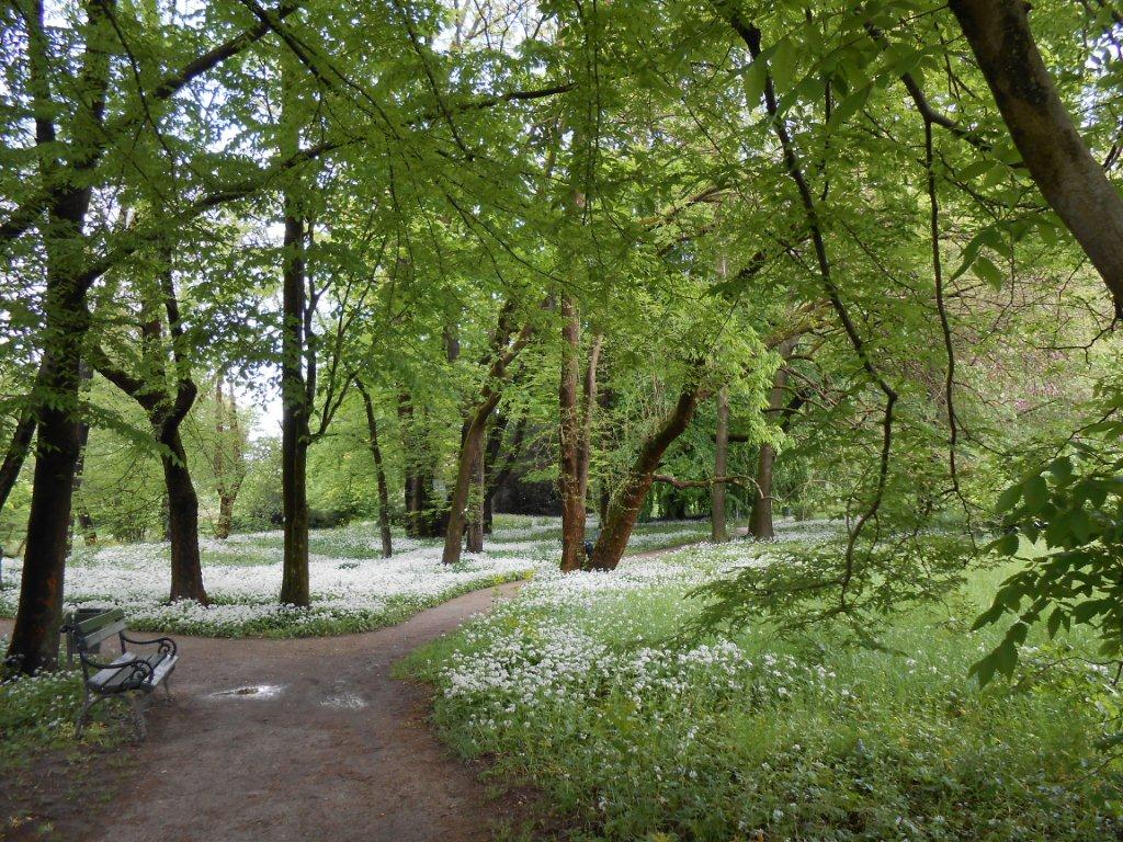 Spring in Botanic garden Ljubljana.